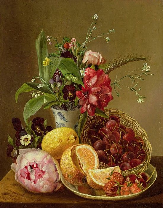 Still life